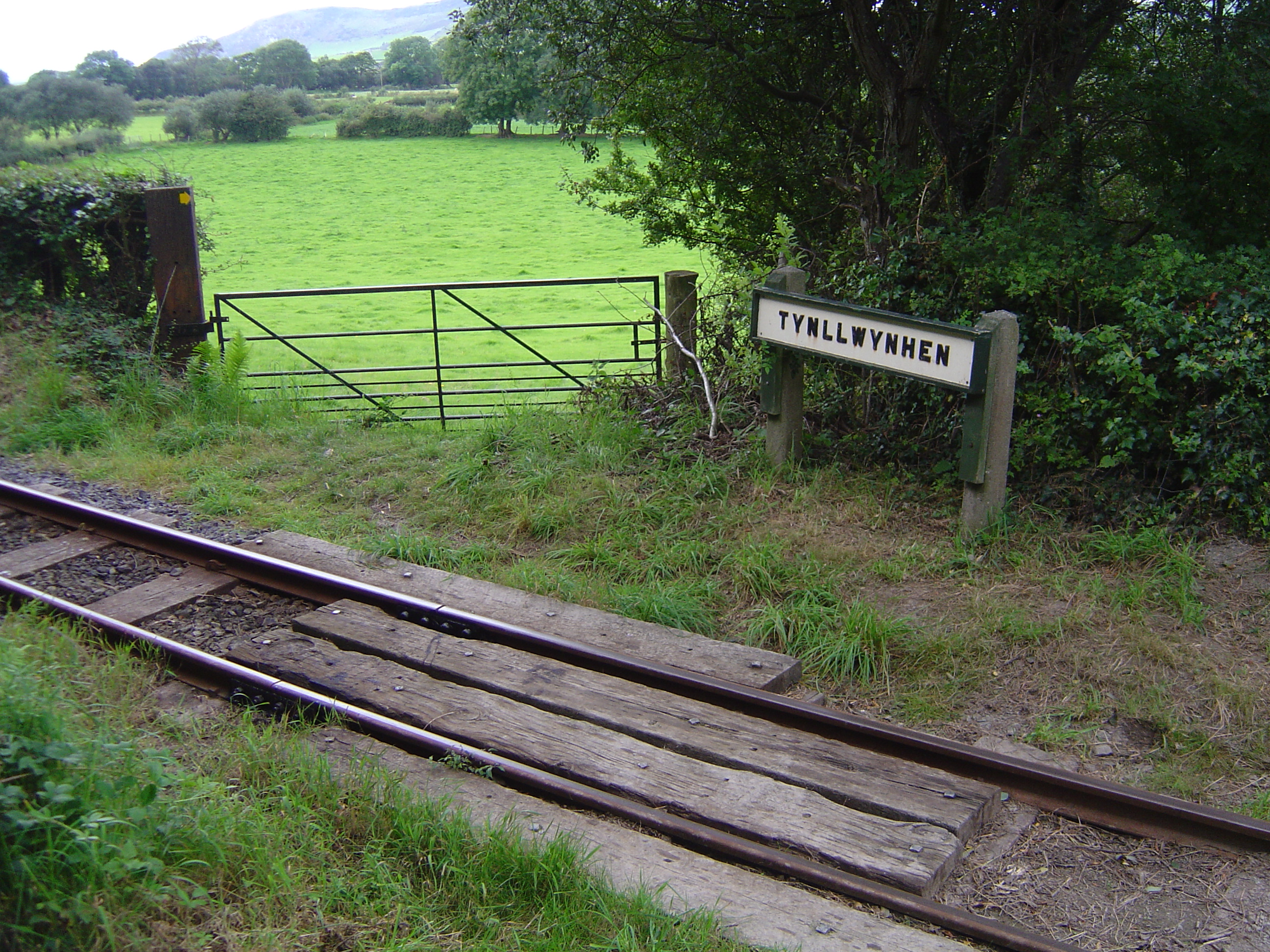 Talyllyn Railway: Tynllwynhen Halt